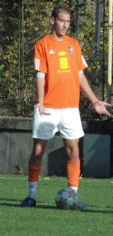 Jérémy Acedo